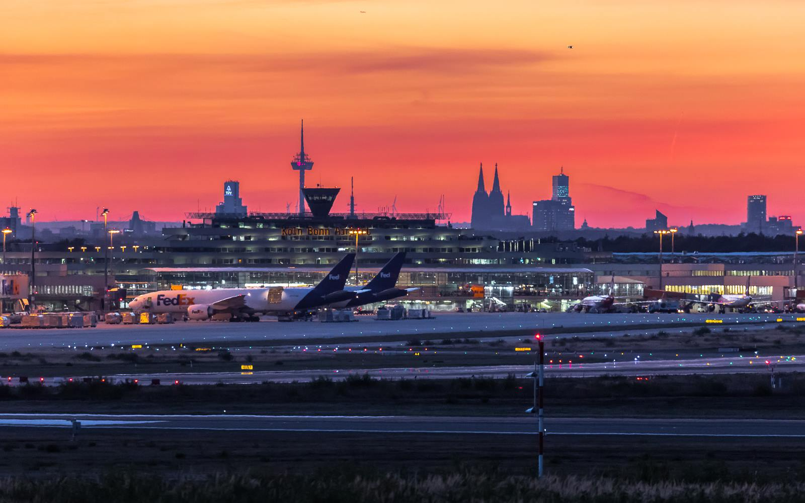 Cologne Airport Skyline